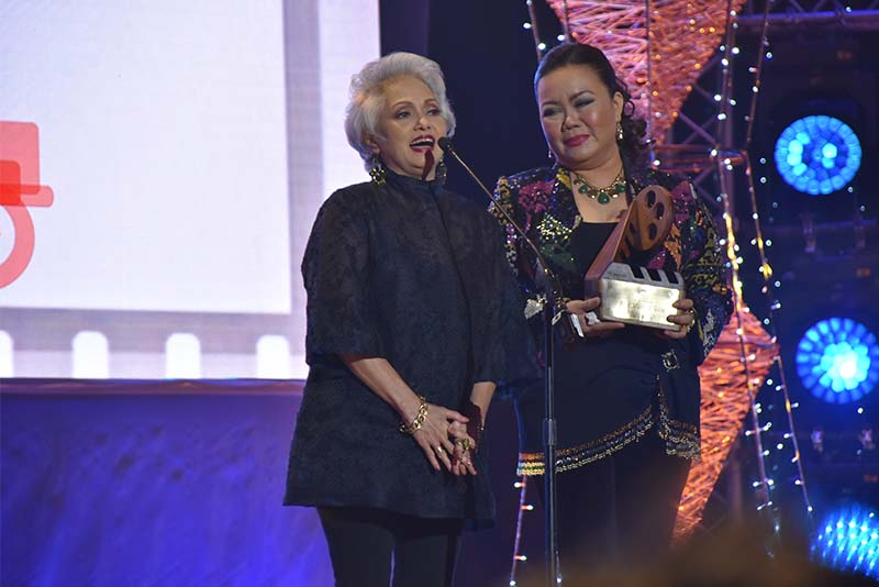 Ang Larawan actresses Celeste Legaspi (also producer) and Dulce claims the Special Jury Prize for the late Nick Joaquin at the Awarding Night of the Metro Manila Film Festival